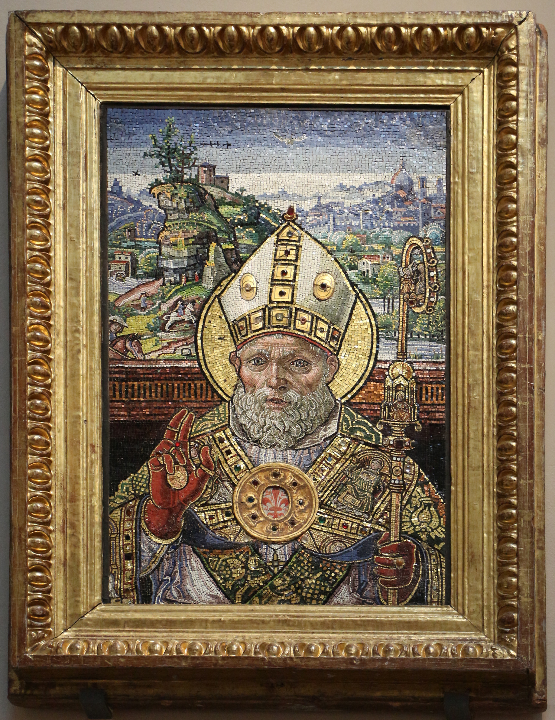 Museo dell'Opera del Duomo (Florence)